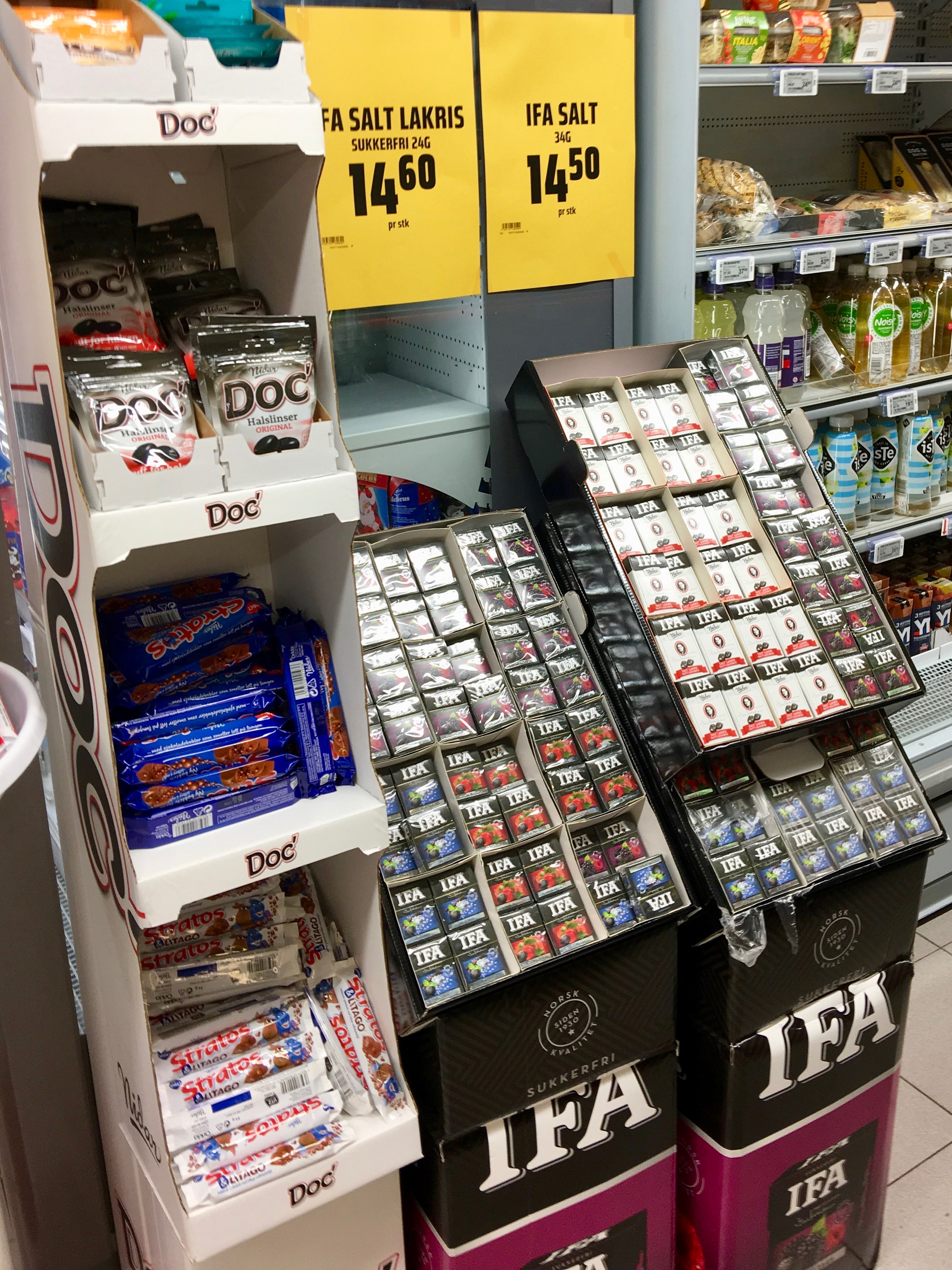 Throat lozenge (cough drops, Nidar IFA saltpastiller etc.) in Extra Coop supermarket in Bergen Storsenter, a shopping mall in Bergen, Norway. October 2017.